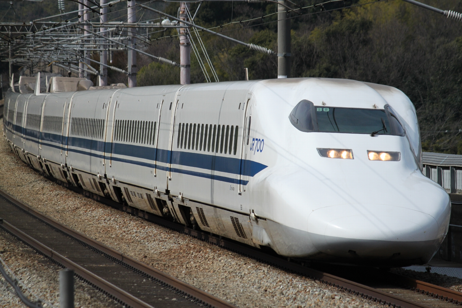 JR West 700-3000 series shinkansen set B9 between Aioi and Okayama on Nozomi 16 service